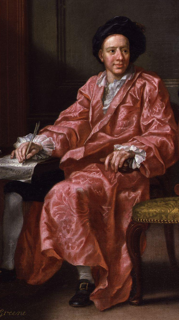 Detail of Maurice Greene; John Hoadly, by Francis Hayman.